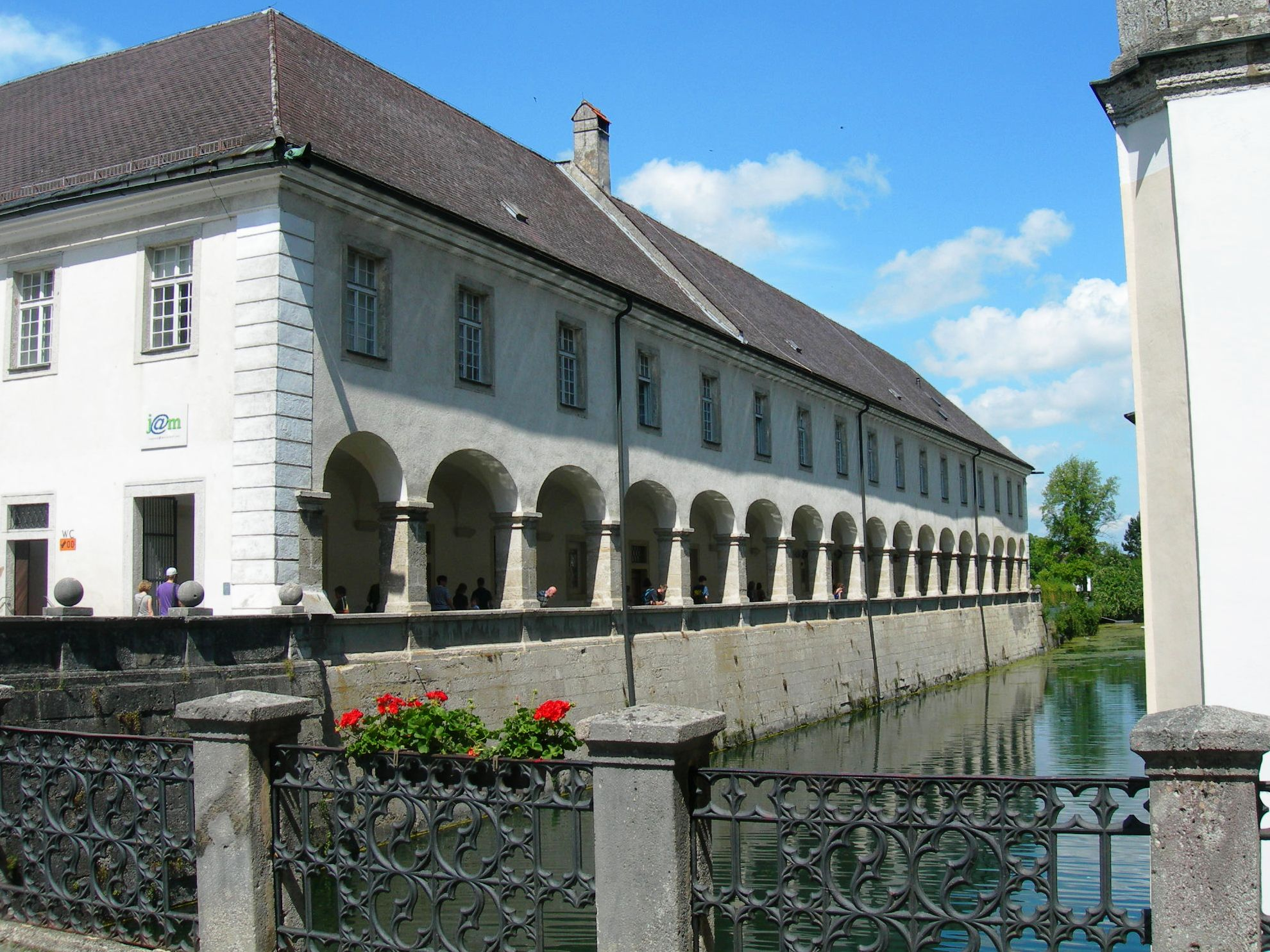 Stift Kremsmünster, fish pond